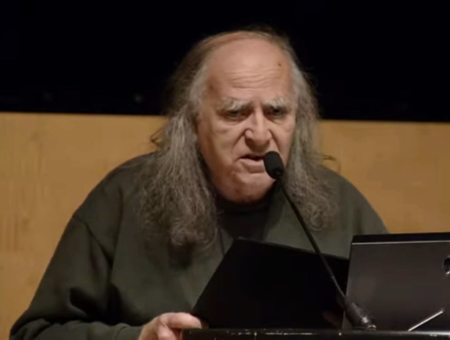 Speaking at the San Francisco Public Library